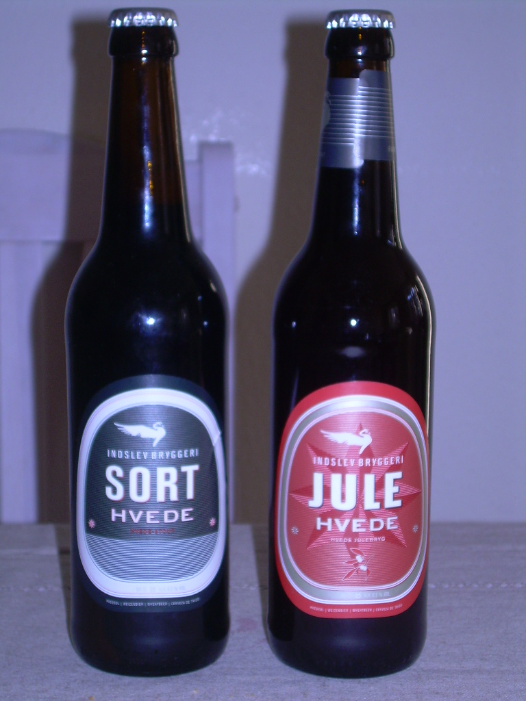 Selection of beers from Indsle Brewery, Denmark